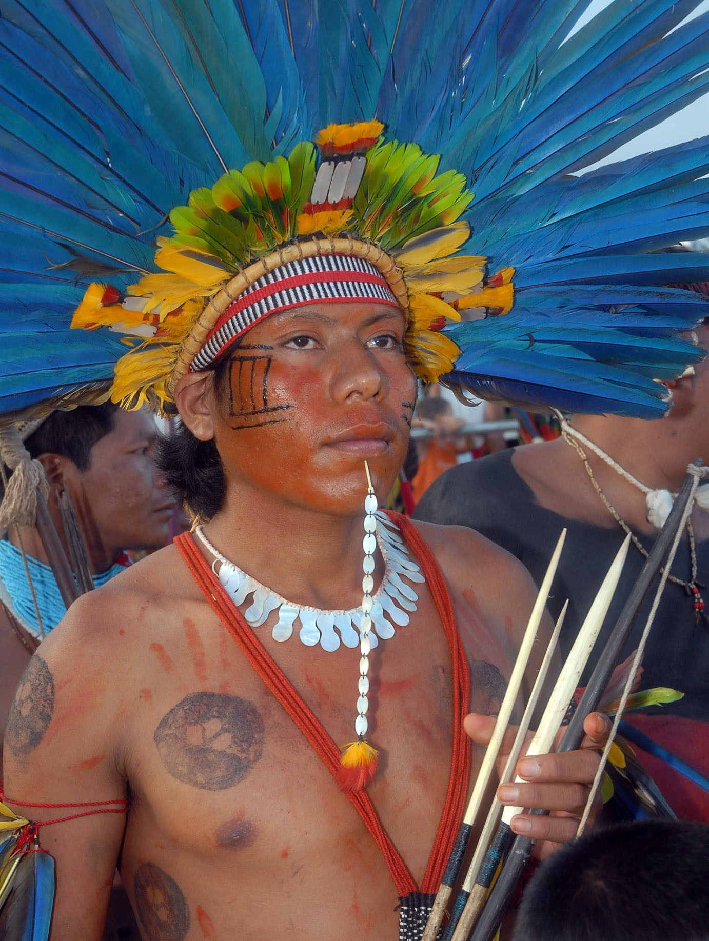 Bororo-Boe youth during Brazil's ninth Indigenous Games